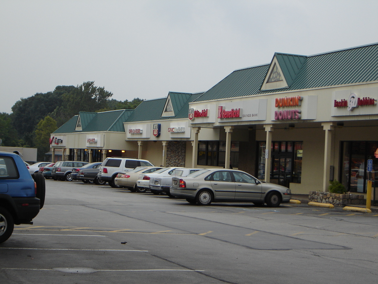 Ardmore West Shopping Center in Ardmore, United States